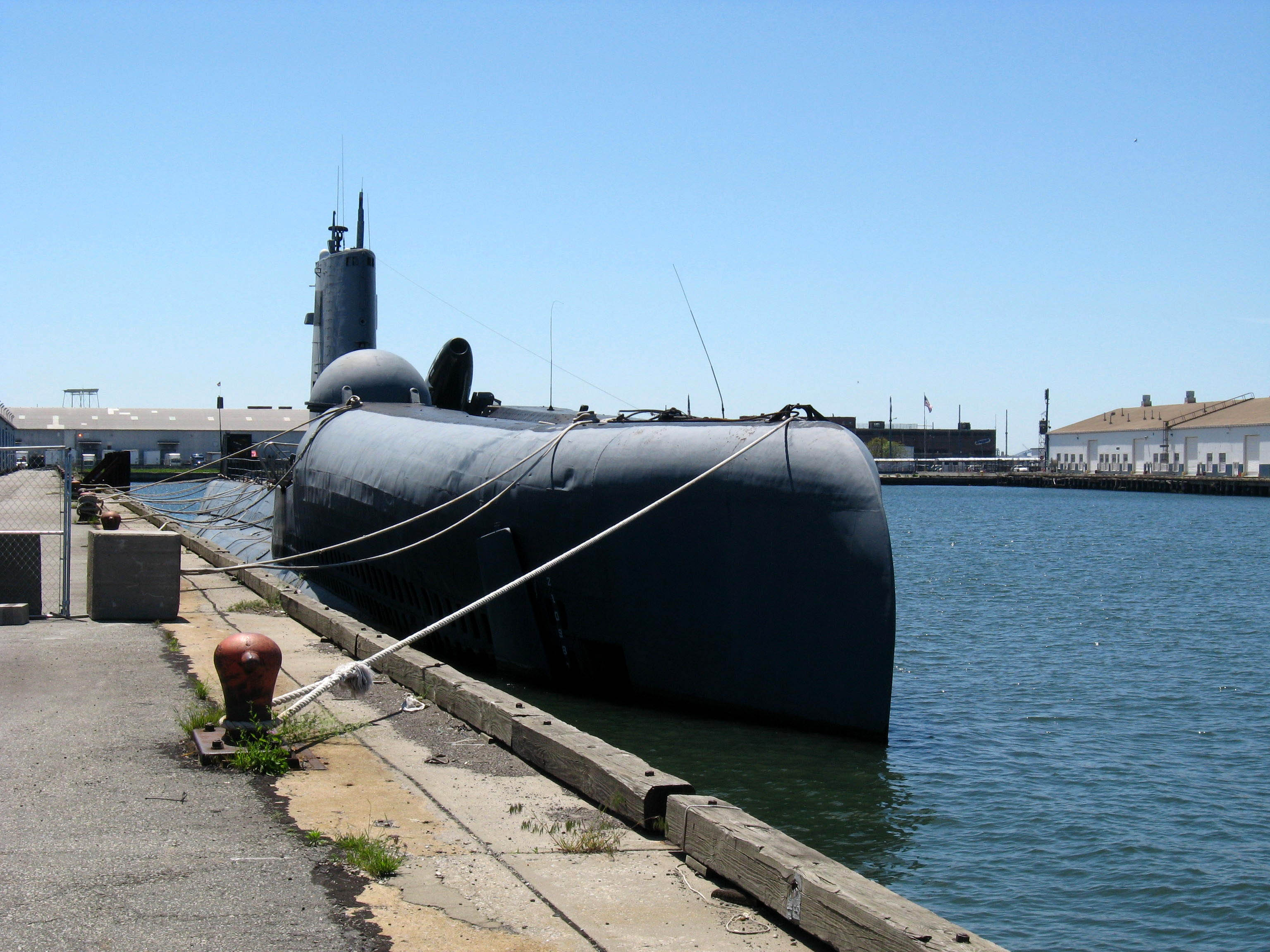 Looking southwest on a sunny midday at USS Growler (SSG-577) temporarily docked at Atlantic Basin, east of Brooklyn Cruise Terminal for the summer of 2008